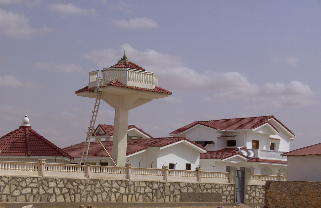 A residential area in Garowe, the administrative capital of the Puntland region in northeastern Somalia.